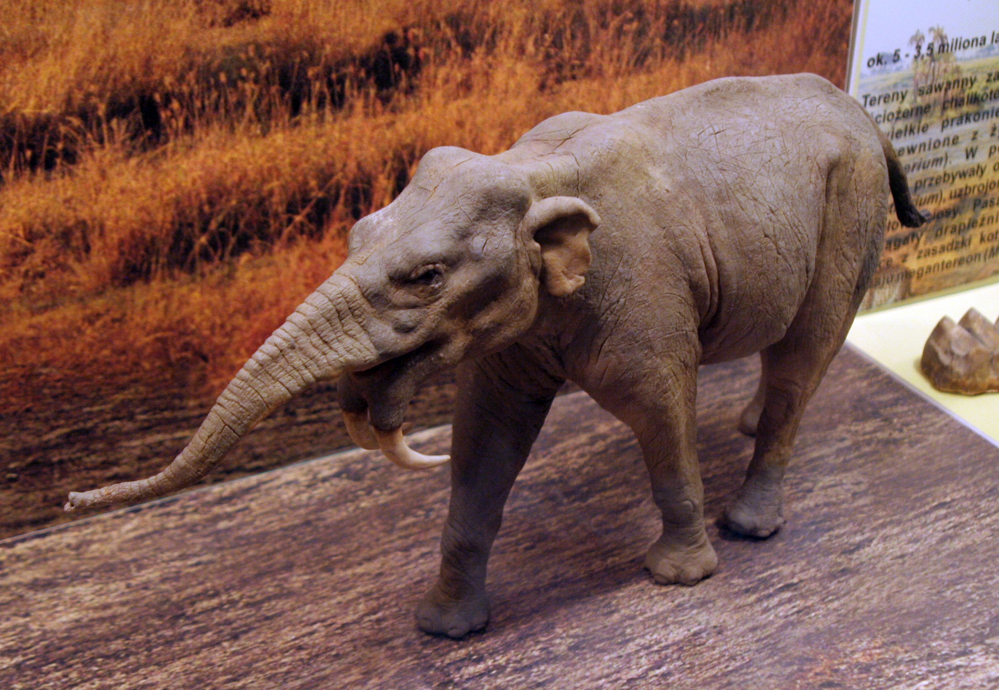 Deinotherium, Warsaw Museum of Evolution